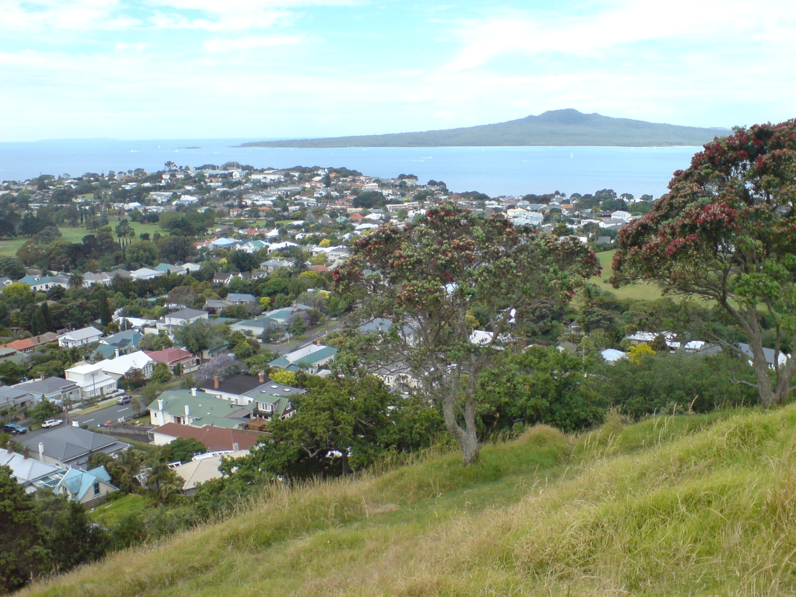 Vauxhall, a suburb of North Shore City, New Zealand. Looking north towards Rangitoto Island from Mount Victoria.